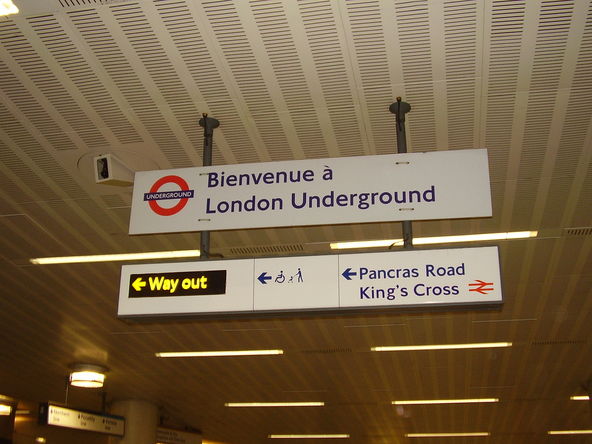 St. Pancras International Station - "Bienvenue à London Underground" ("Welcome to London Underground")